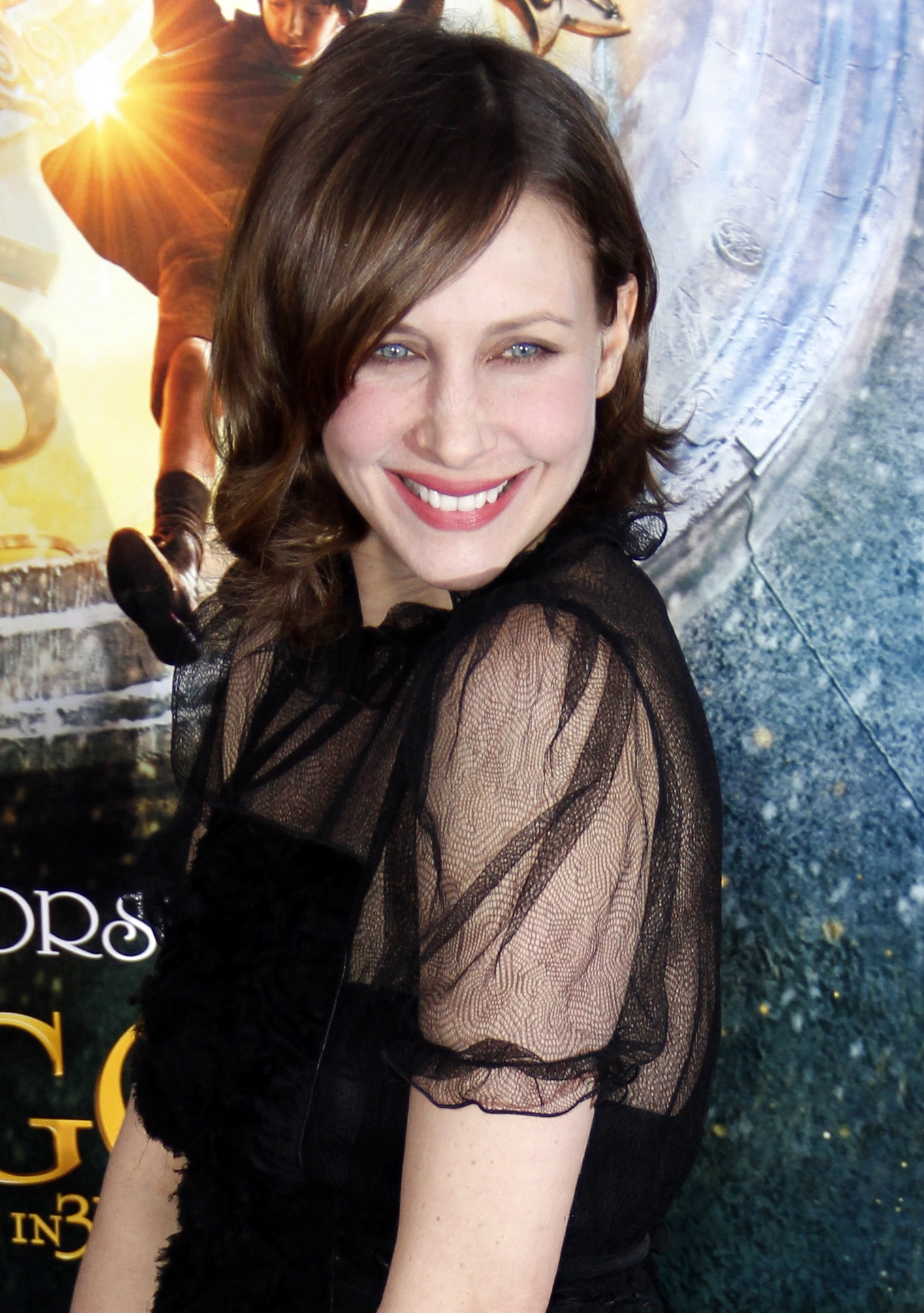 Vera Farmiga at the Hugo Premiere, New York City 2011.